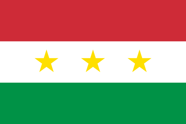 Medici state flag (Just Cause 3)